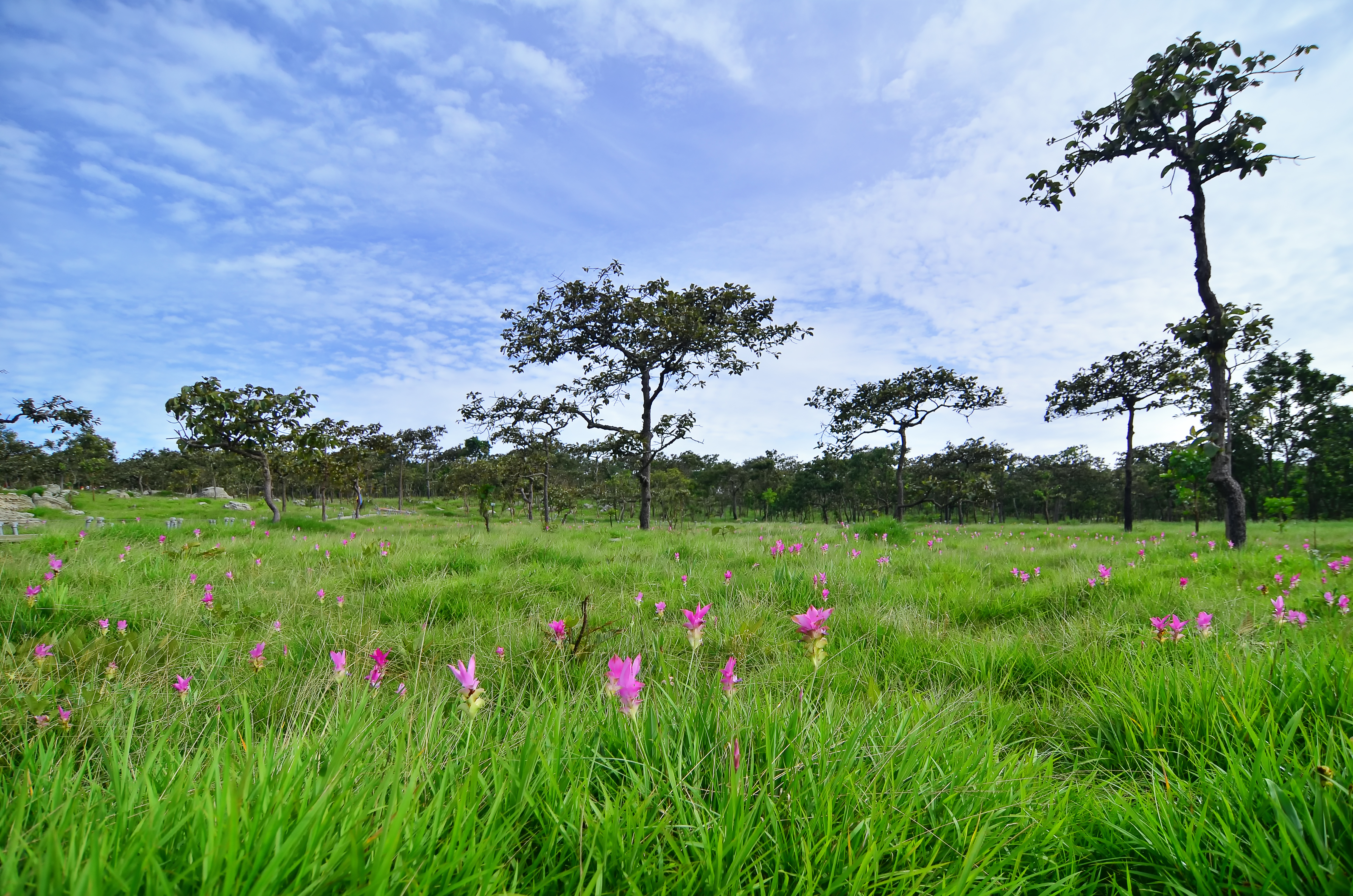 The field of pathumma (Curcuma alismatifolia) flowers at Pa Hin Ngam National Park, Chaiyaphum Province